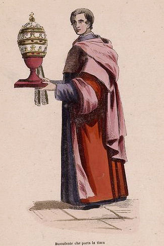 gravure